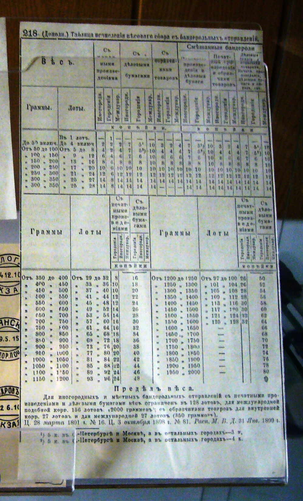 Russian Empire postage rates for parcels, ca. 1899. Postal Museum, Moscow, Russia.